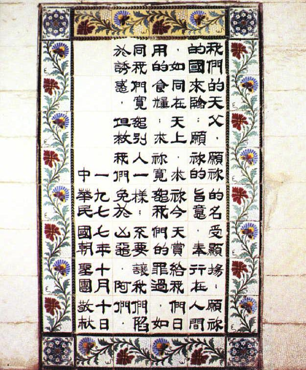 The Our Father as used in Catholic liturgy painted on tile in Chinese.